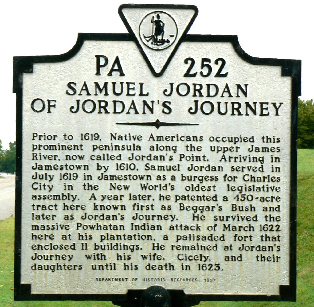 VA Dept. Historic Resources sign at "Jordan's Journey", on the south bank of the James River near Hopewell VA.